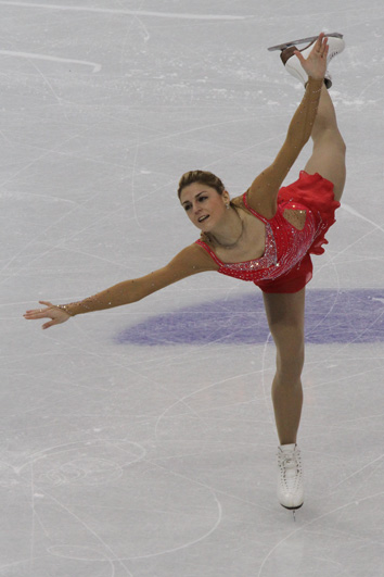 Júlia Sebestyén at the 2010 Winter Olympics.